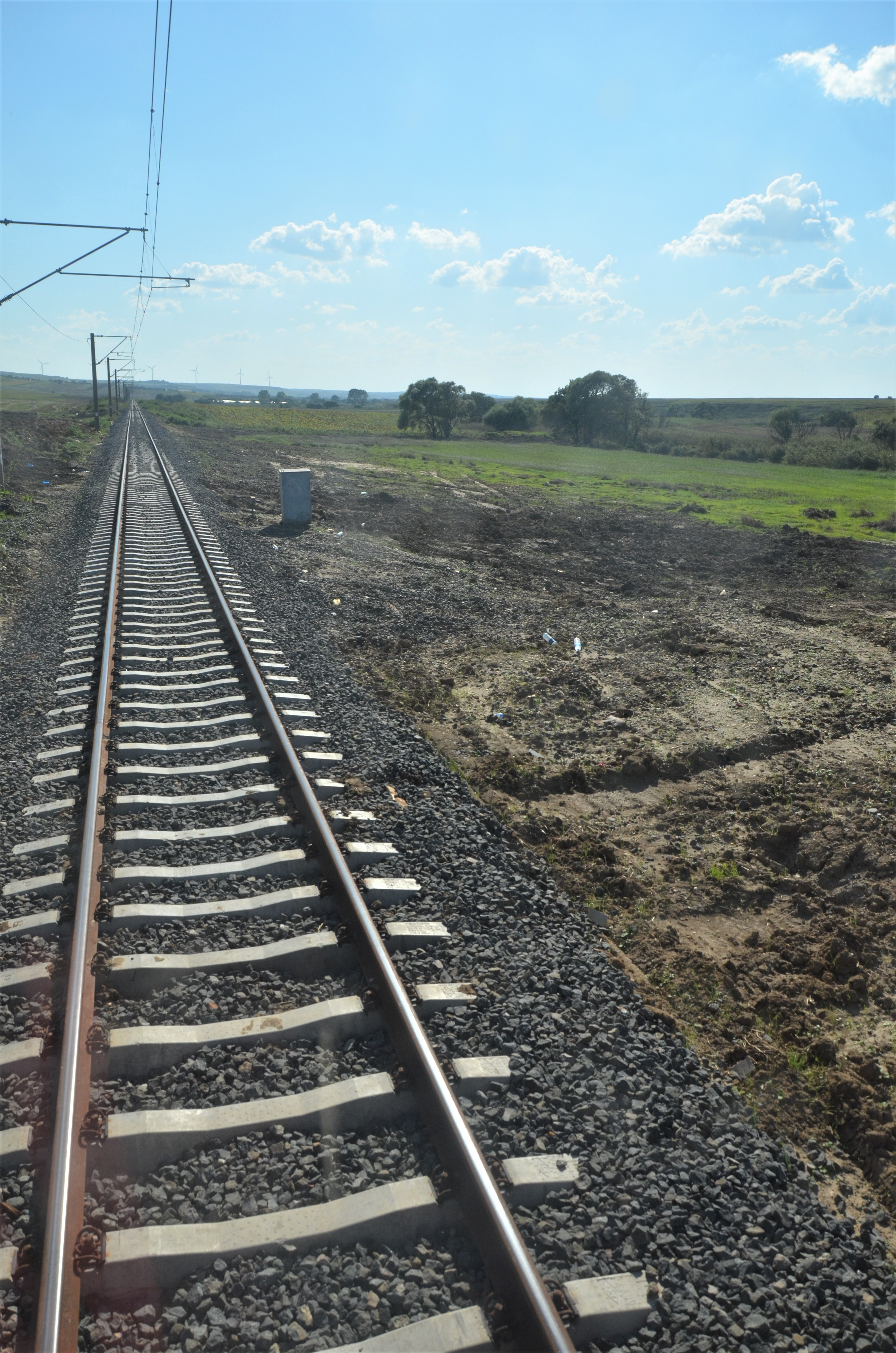 Rail track between Halkalı, Istanbul and Pehlivanköy, Kırklareli in Turkey. Siye of 2018 derailment accident with traces of recovery work on the right.